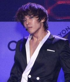 Lee Joon in 2010